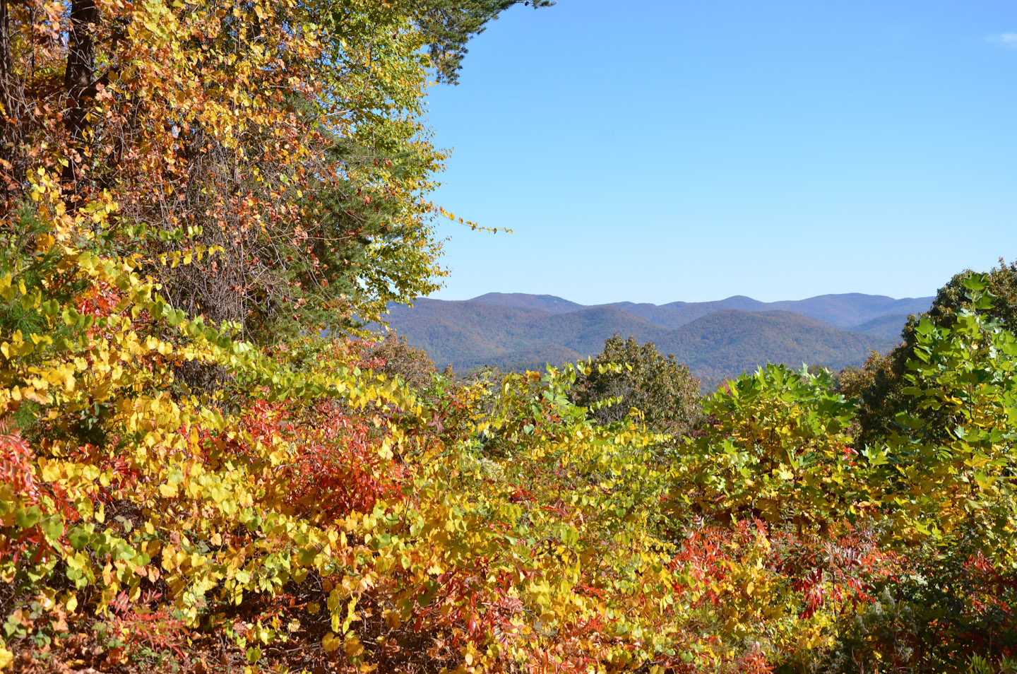 Chestatee Overlook, 10/21/2012, photo by Mitch Cohen